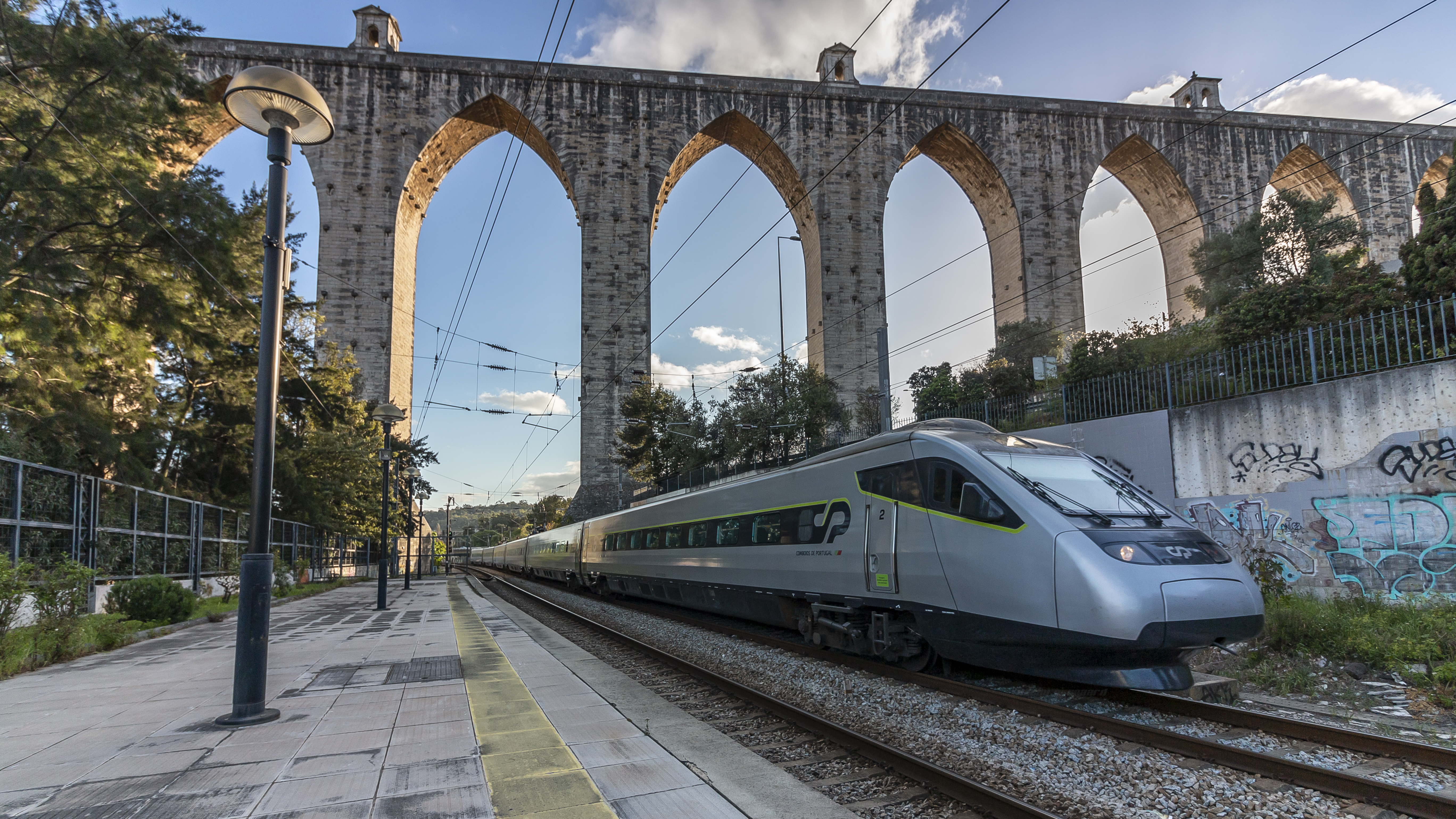 AlfaPendular train of type 4000 in grey/green livery rushing through Campolide train station, Lisbon, Portugal